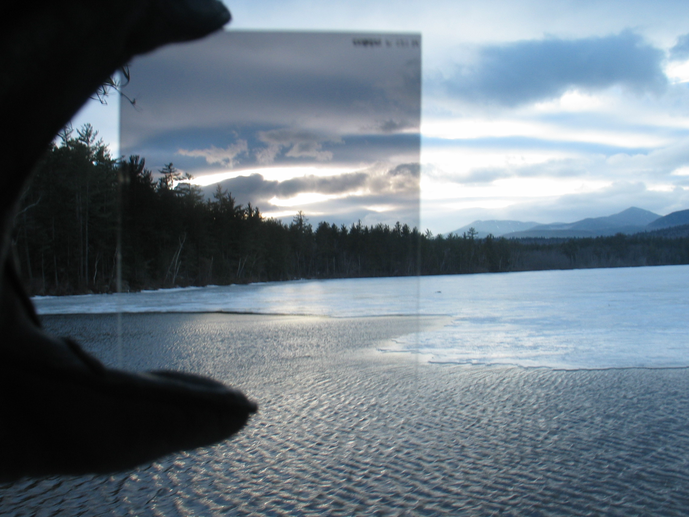 By me, a picture demonstrating the effect of a graduated neutral-density filter.